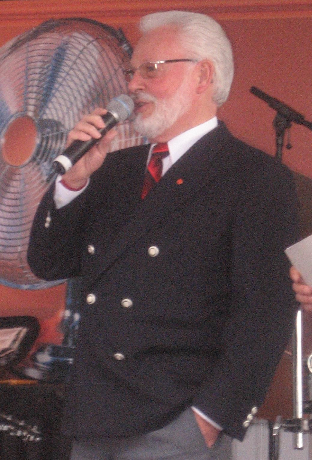 Michael A. Roth talking to supporters.